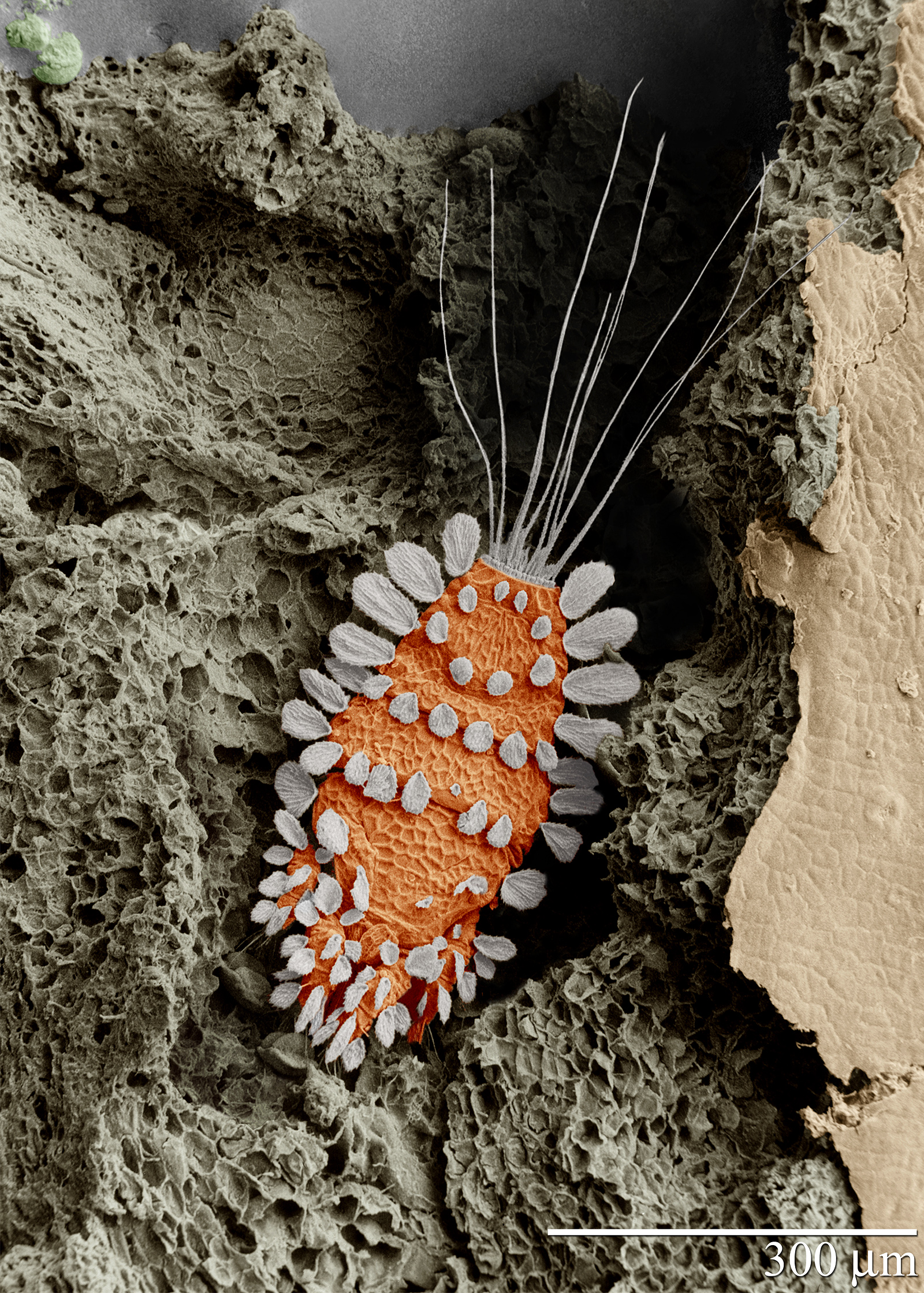 The Peacock mite, a beautiful but important pest on citrus in the tropics, shown here on a tea stem. Magnified 260X (with a low-temp scanning electron microscope). (LTSEM) Plate # d27487. Courtesy, Erbe, Pooley: USDA, ARS, EMU. "All of the micrographs on the web site are in the public domain and can be freely used." --Christopher Pooley. Reference: English Wikipedia, original upload 23 March 2005 by Brian0918